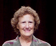 Barbara Liskov speaking at OOPSLA 2009 conference